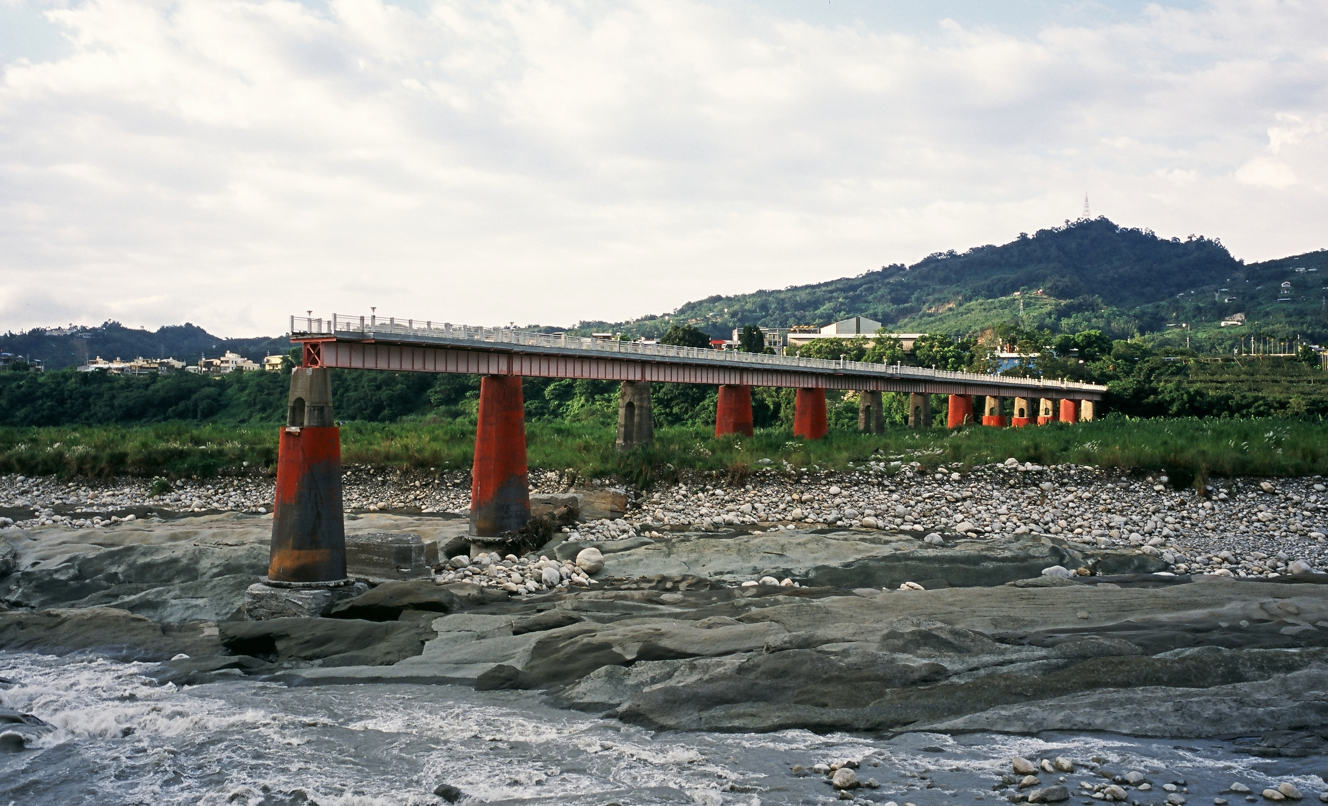 Tong Fong Bikeway Broken Bridge.